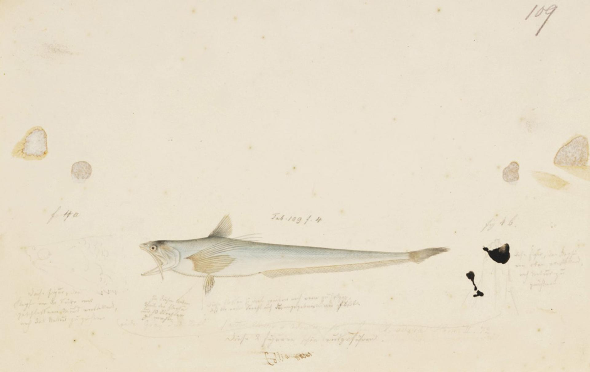 Coilia nasus (Temminck and Schlegel)